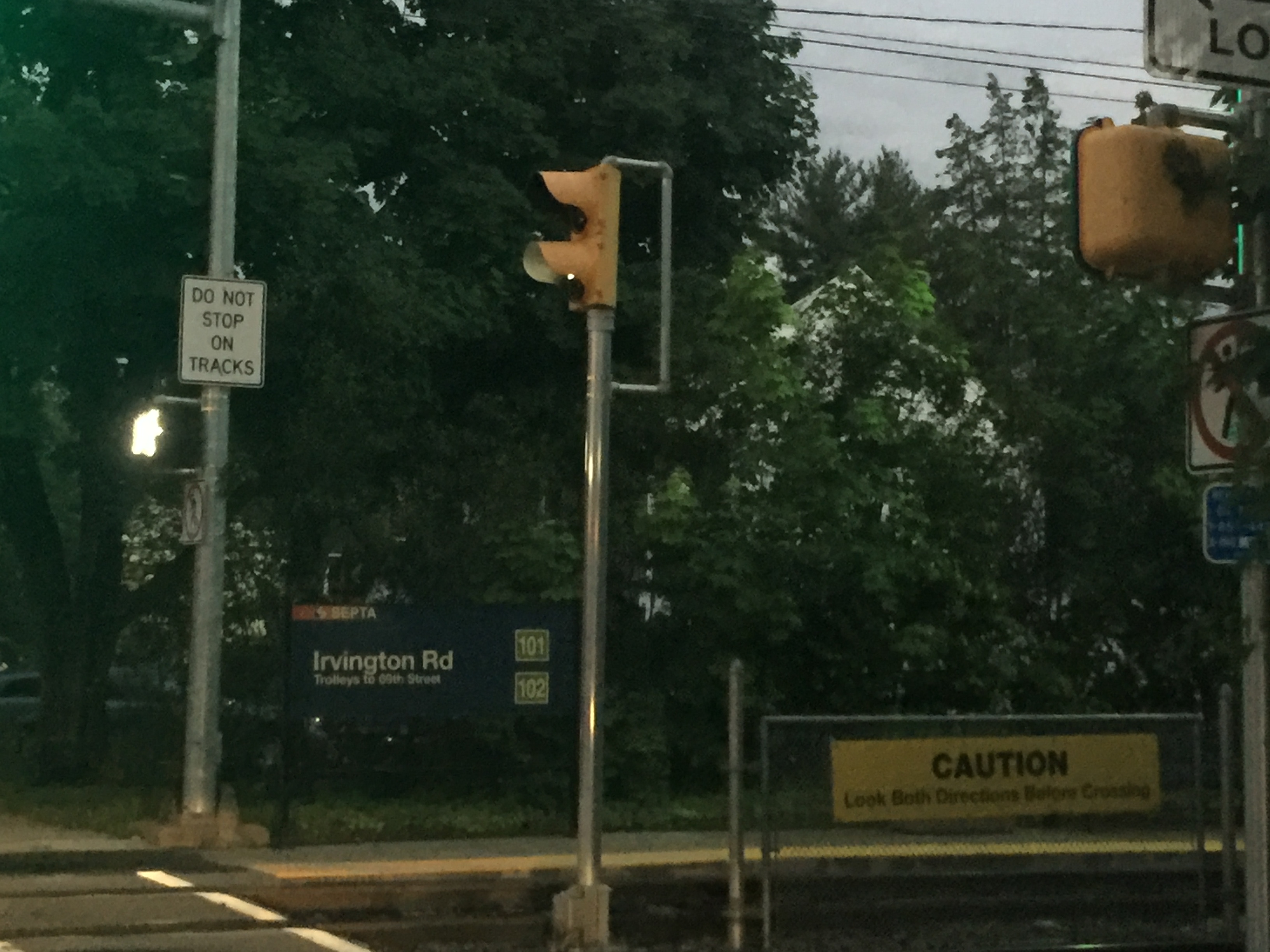 Irvington Road station